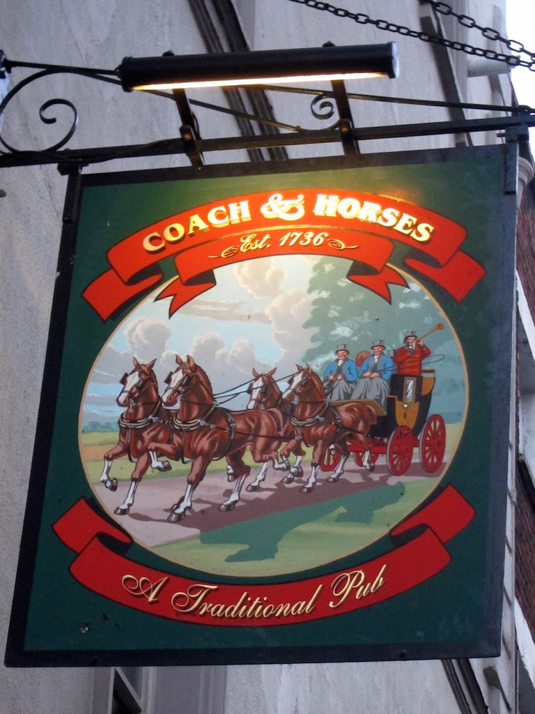 Coach & Horse sign